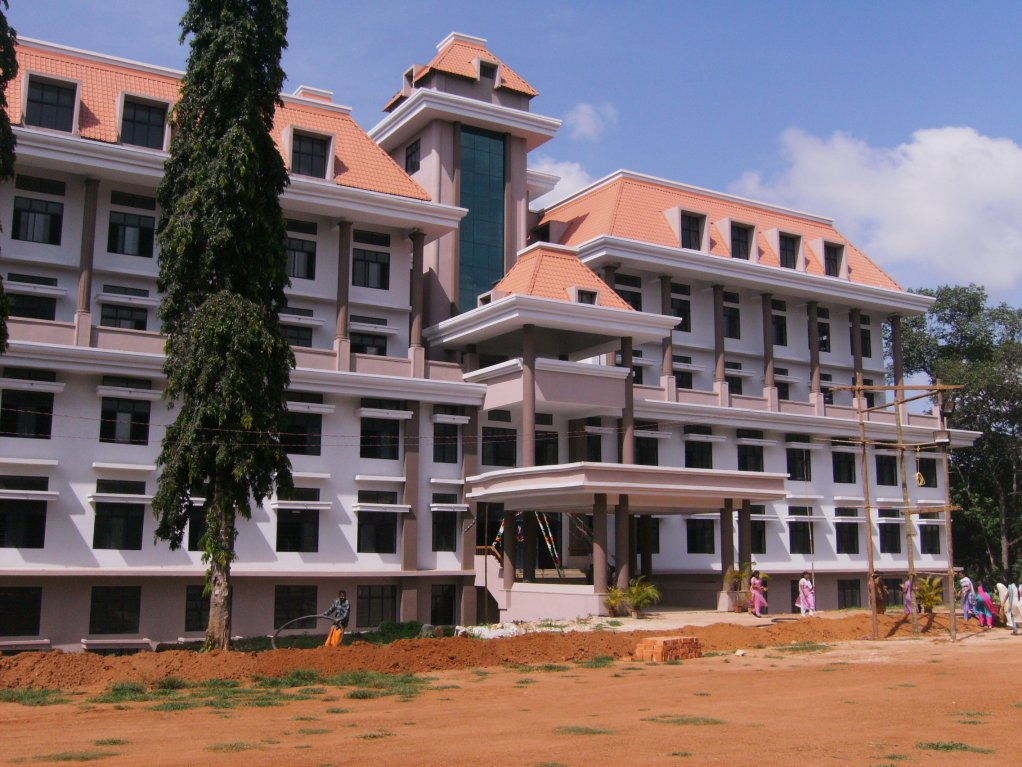 L B S Institute of Technology for Women-The Main Building